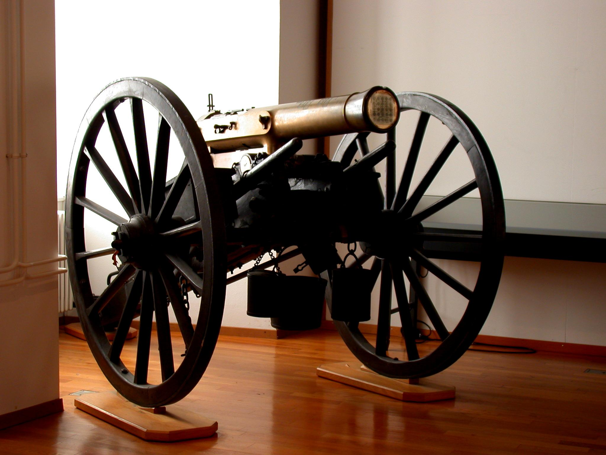 French Mitrailleuse De Reffye, Musée Militaire Vaudois, 1110 Morges Switzerland